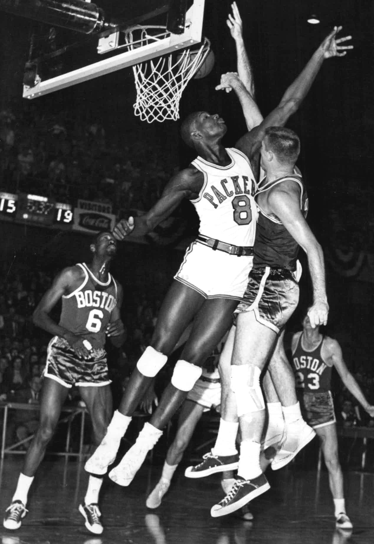 A basketball game in 1961 between the Chicago Packers and the Boston Celtics. From left to rightː Bill Russell, Walt Bellamy, Tommy Heinsohn and Frank Ramsey